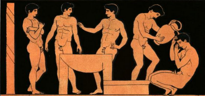 Bathing ephebes